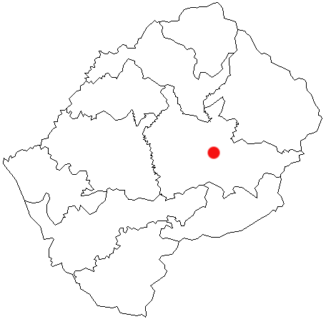 Thaba-Tseka, Lesotho Location Map; created with the GIMP. Made by User:Acntx.